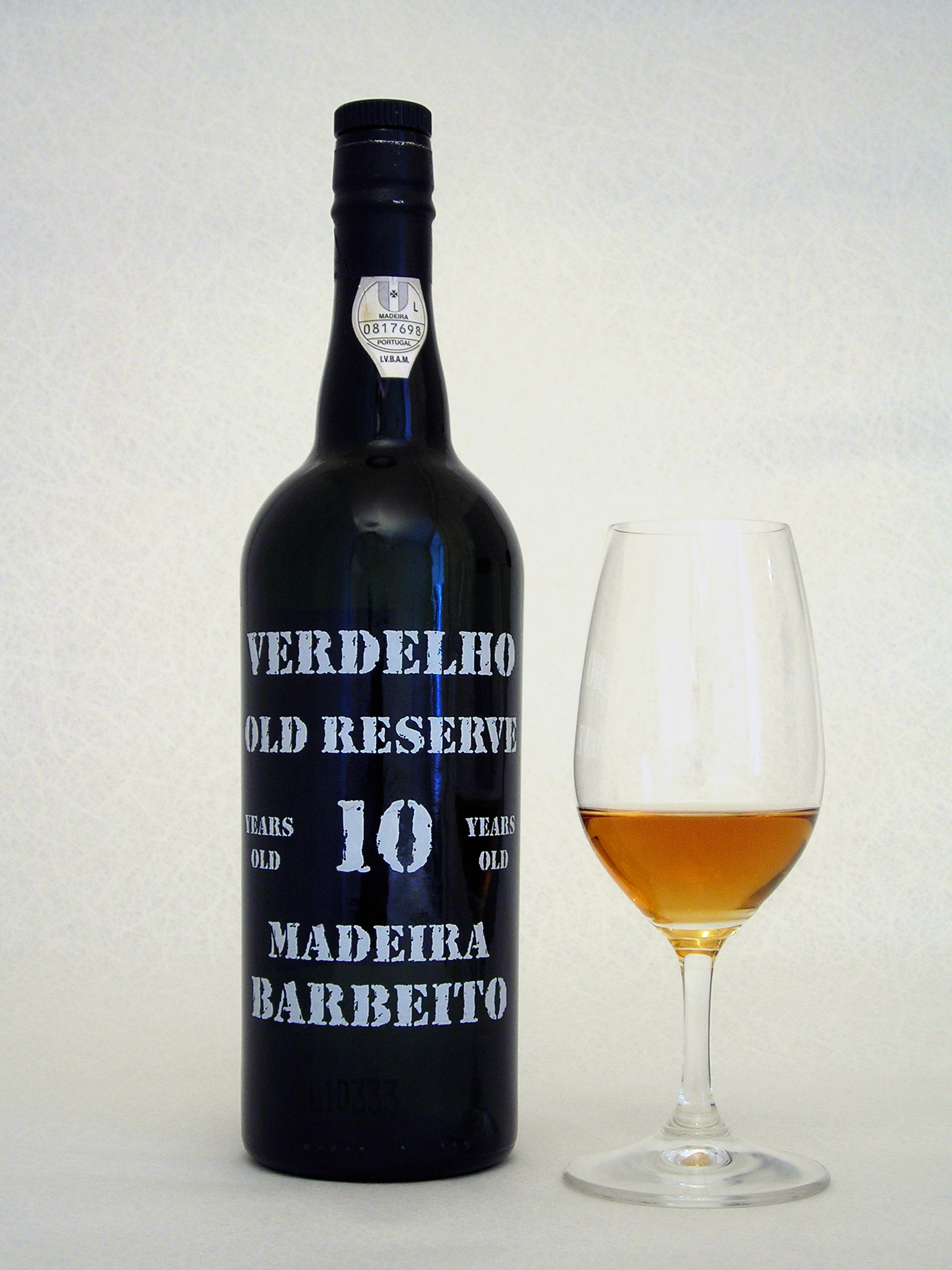 Madeira Barbeito Verdelho Old Reserve - Bottle + Glass